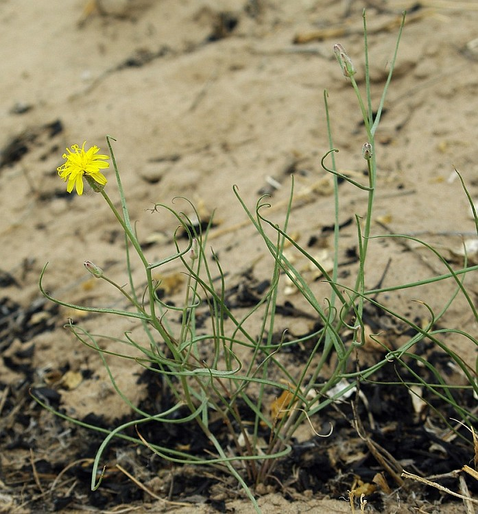 Takhtajaniantha pusilla (Pall.) Nazarova near Kyzylorda, Kazakhstan